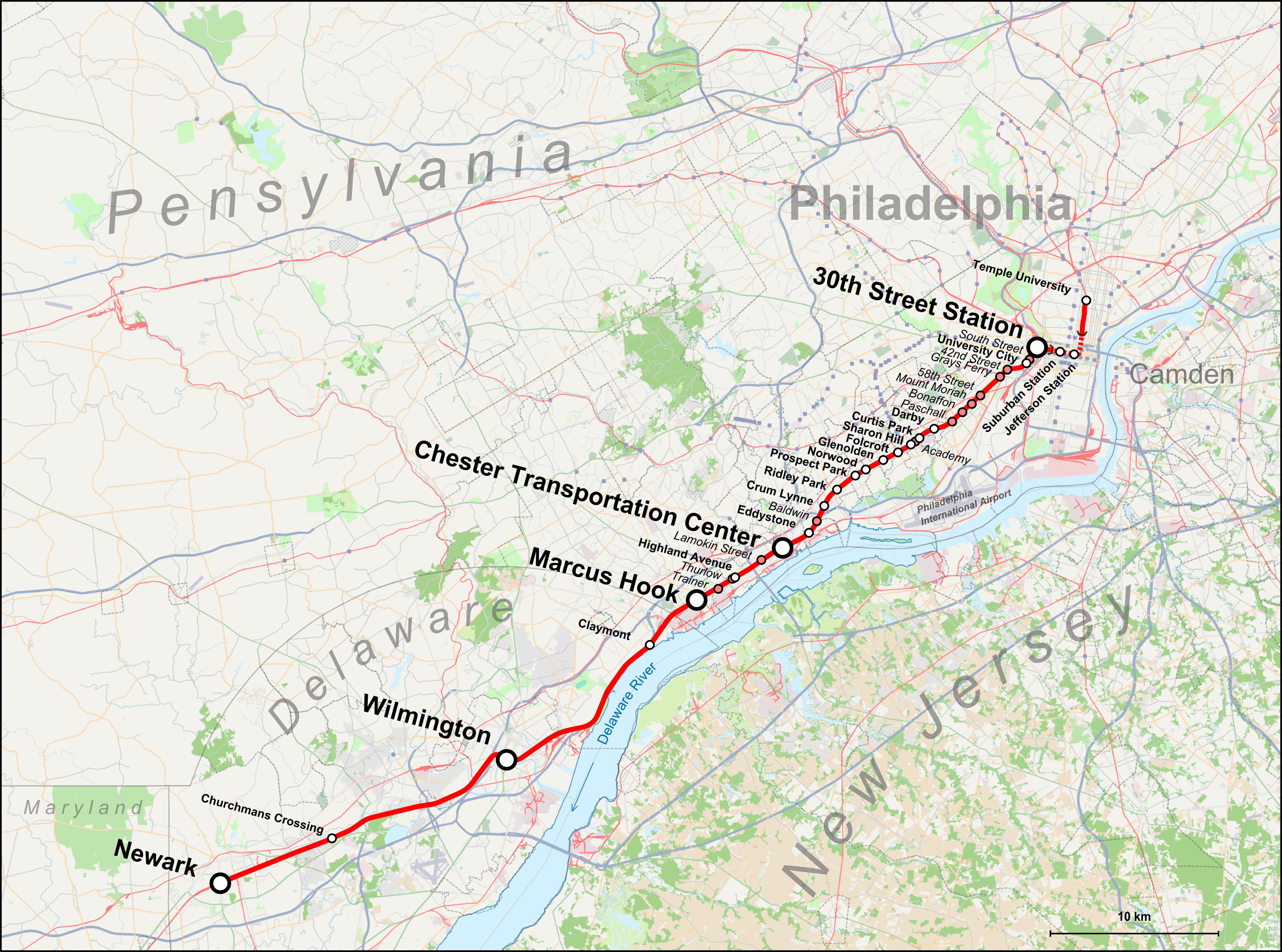 Map of the Wilmington/Newark Line in US, showing all the station existing along the line.